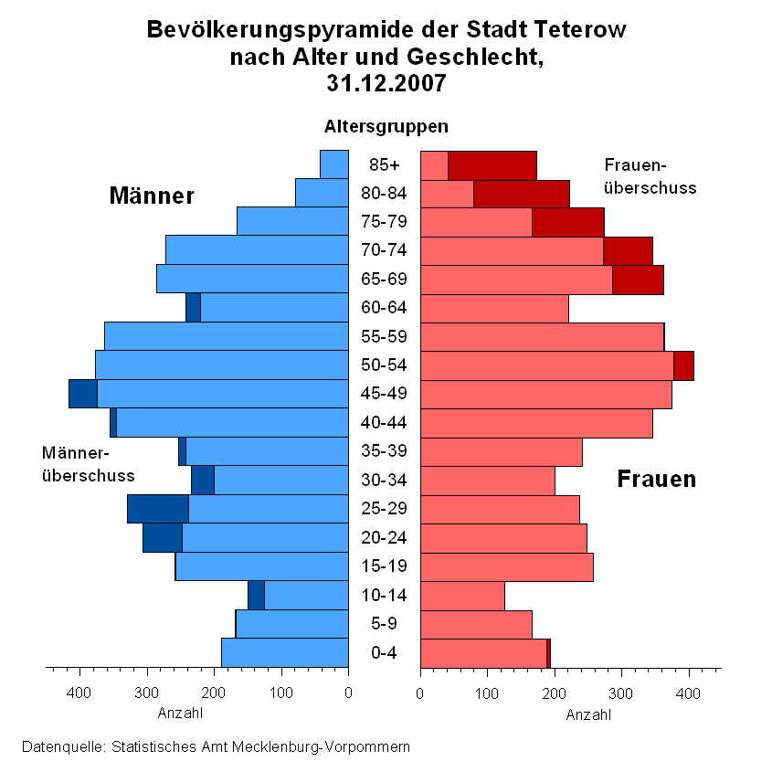 This population pyramid shows the age structure of Teterow (Germany) on 31 December 2007 by sex.